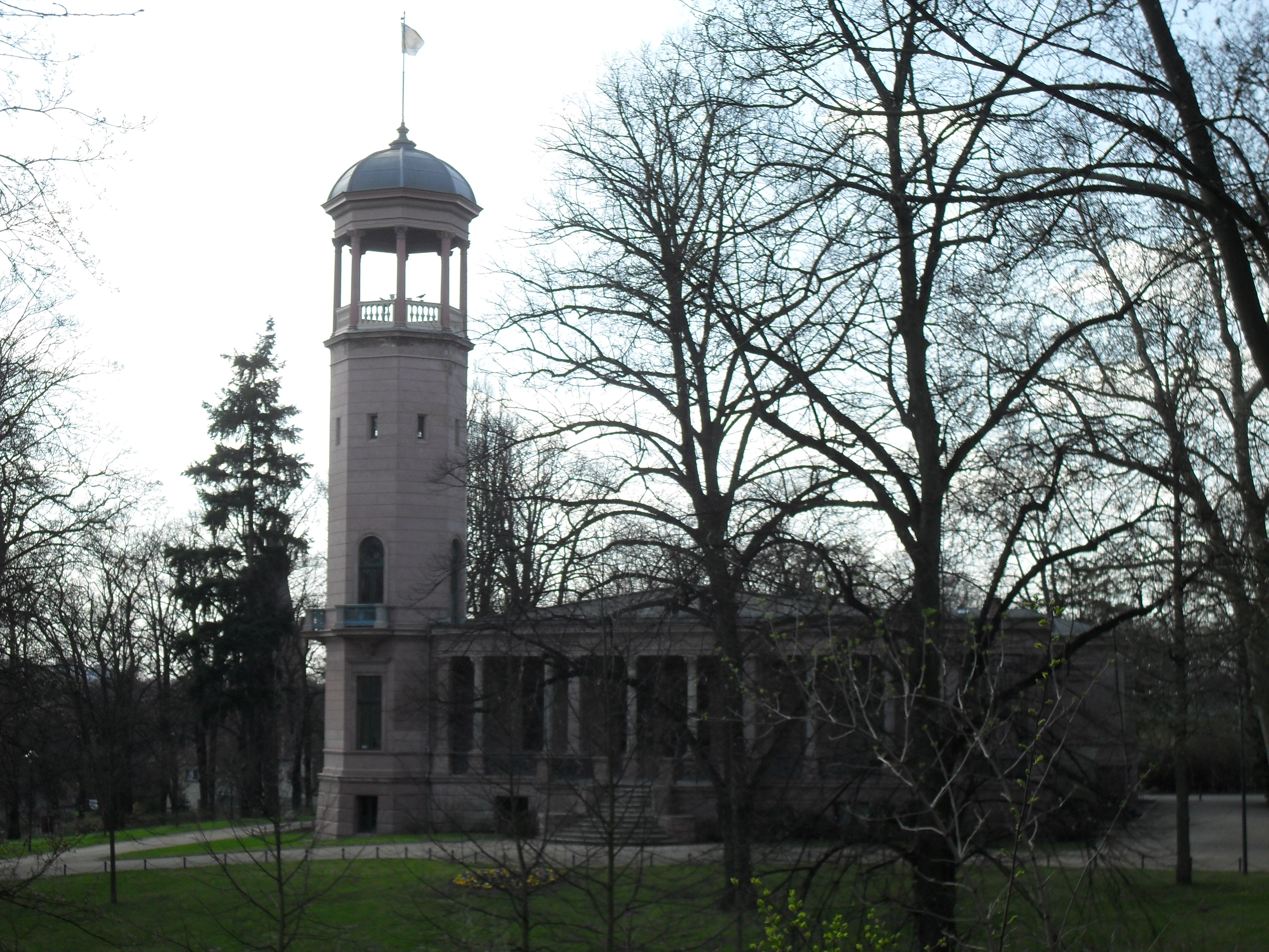 Schloss Biesdorf